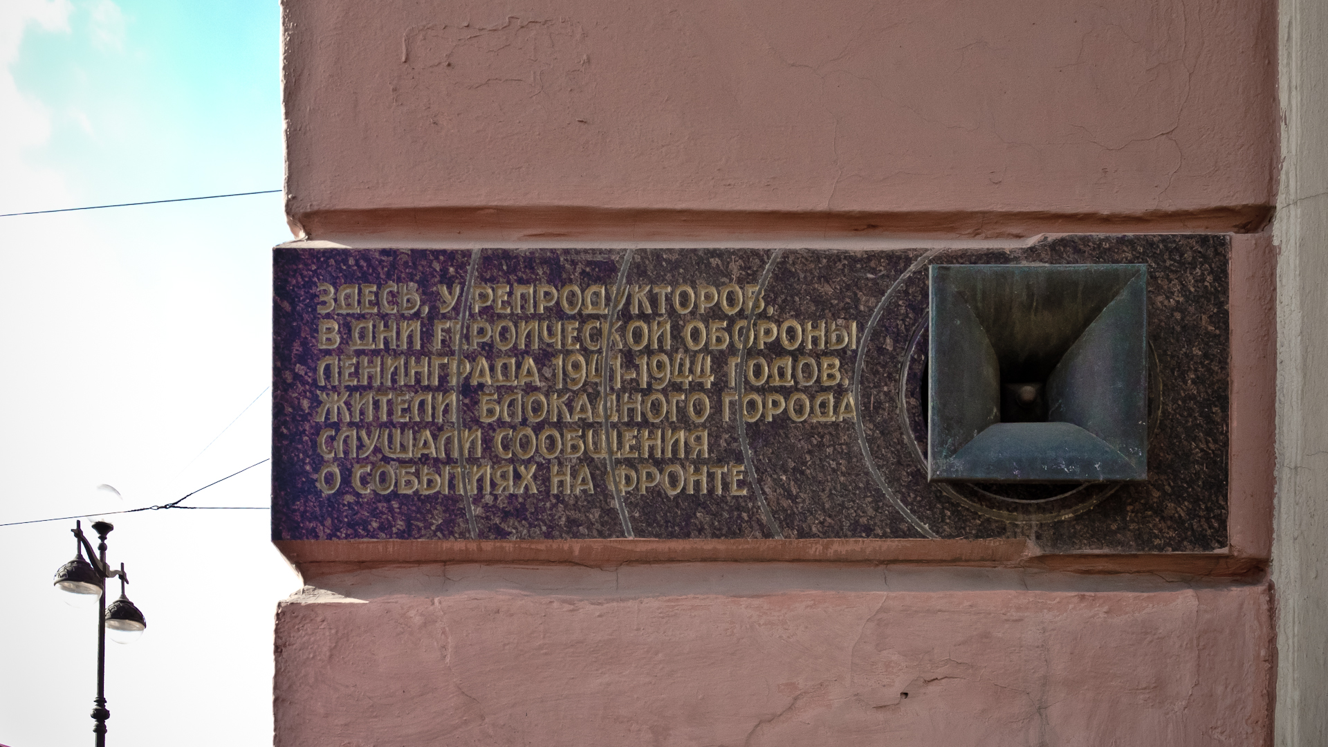 "Blockade loudspeaker memorial", Nevskiy avenue & Malaya Sadovaya street crossing, Saint Petersburg